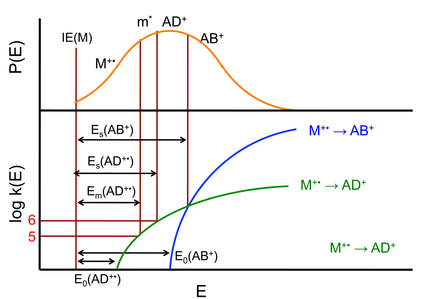 The Wahrhaftig diagram showing the relationship between internal energy and unimolecular ion decomposition for a hypothetical ion ABCD+. Modeled after Figure 7.1 in "Interpretation of Mass Spectra" 4th ed. by McLafferty and Turecek.